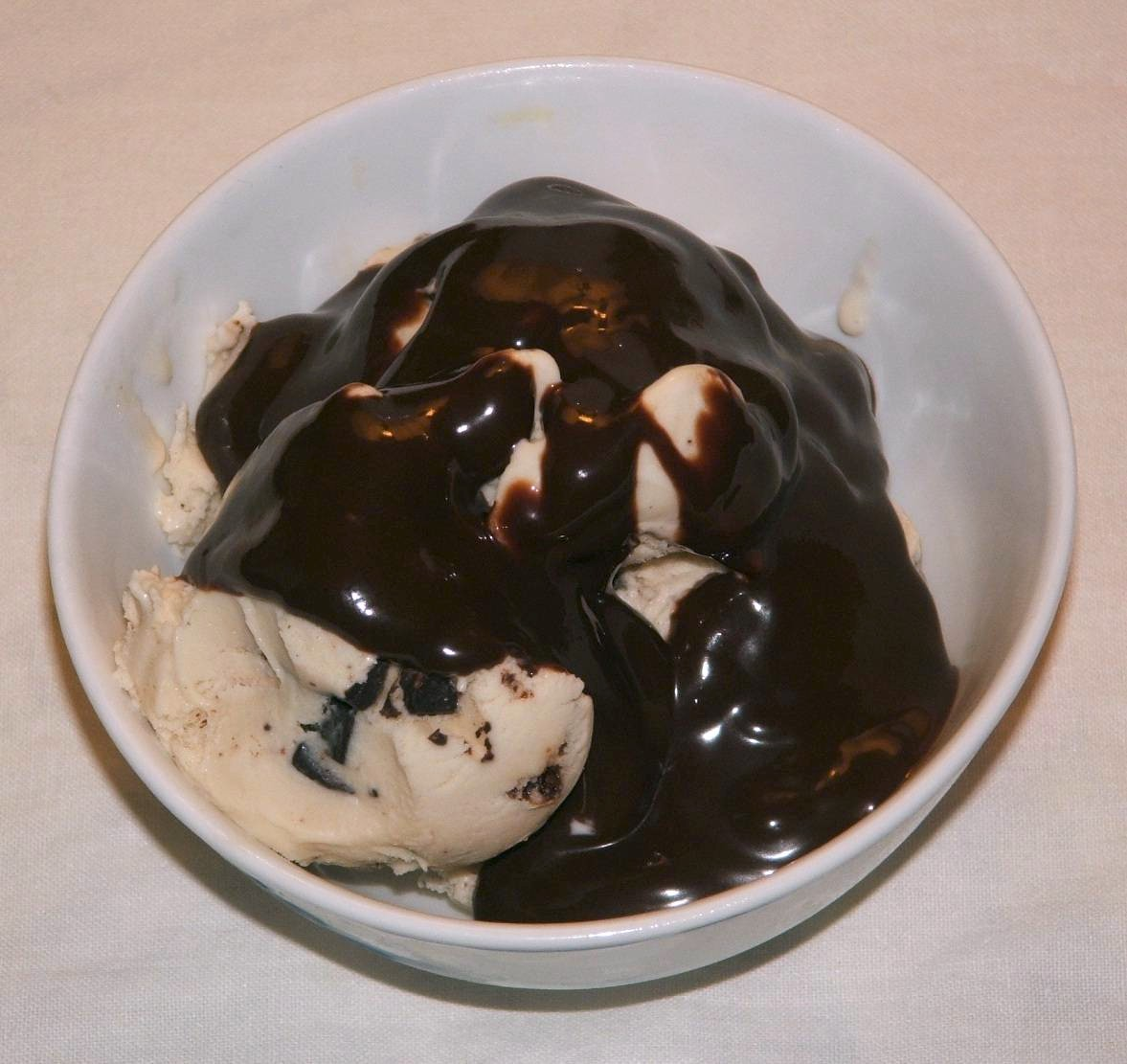 Chocolate syrup - shown topping ice cream